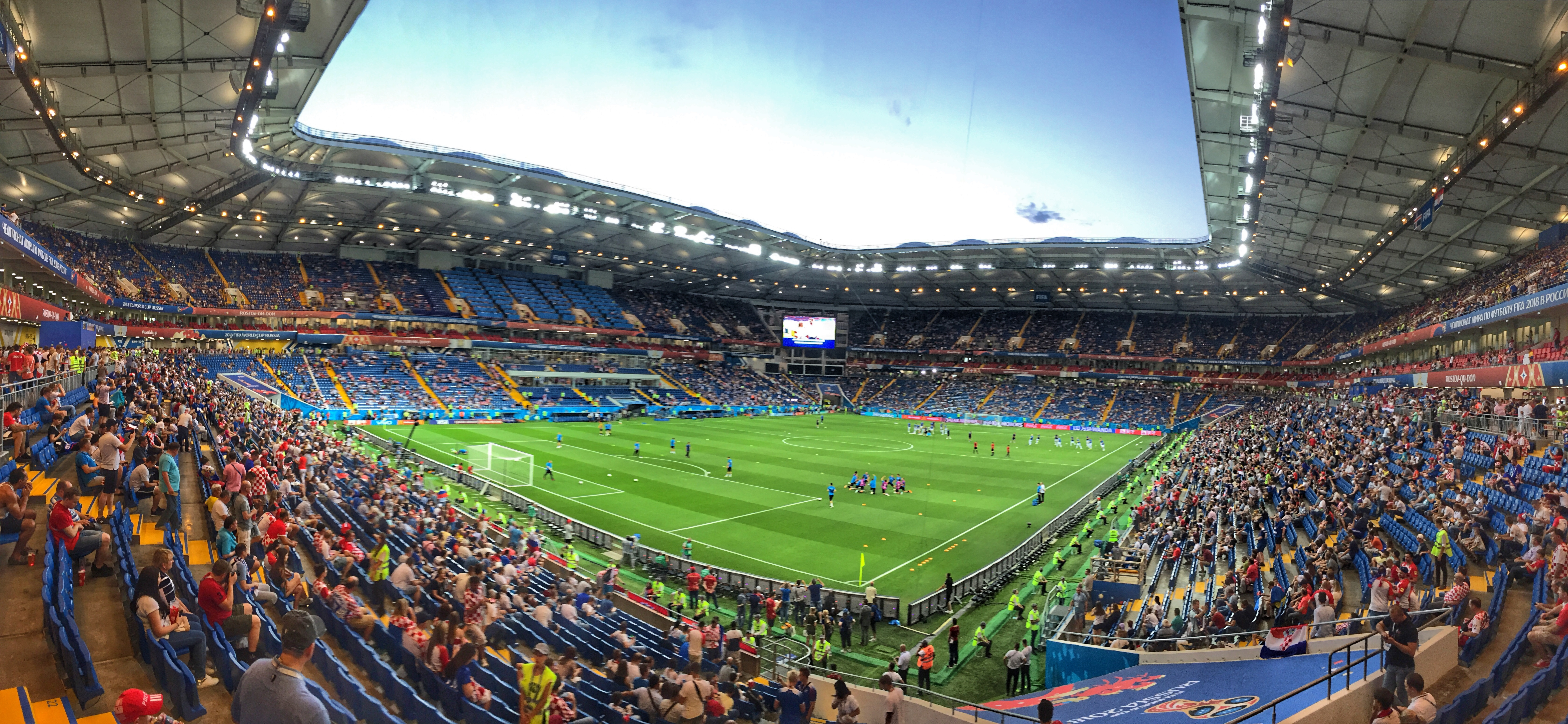 Croatia - Iceland match, Group D, 2018 FIFA World Cup.